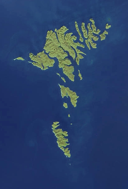 NASA photo of the Faroe Islands